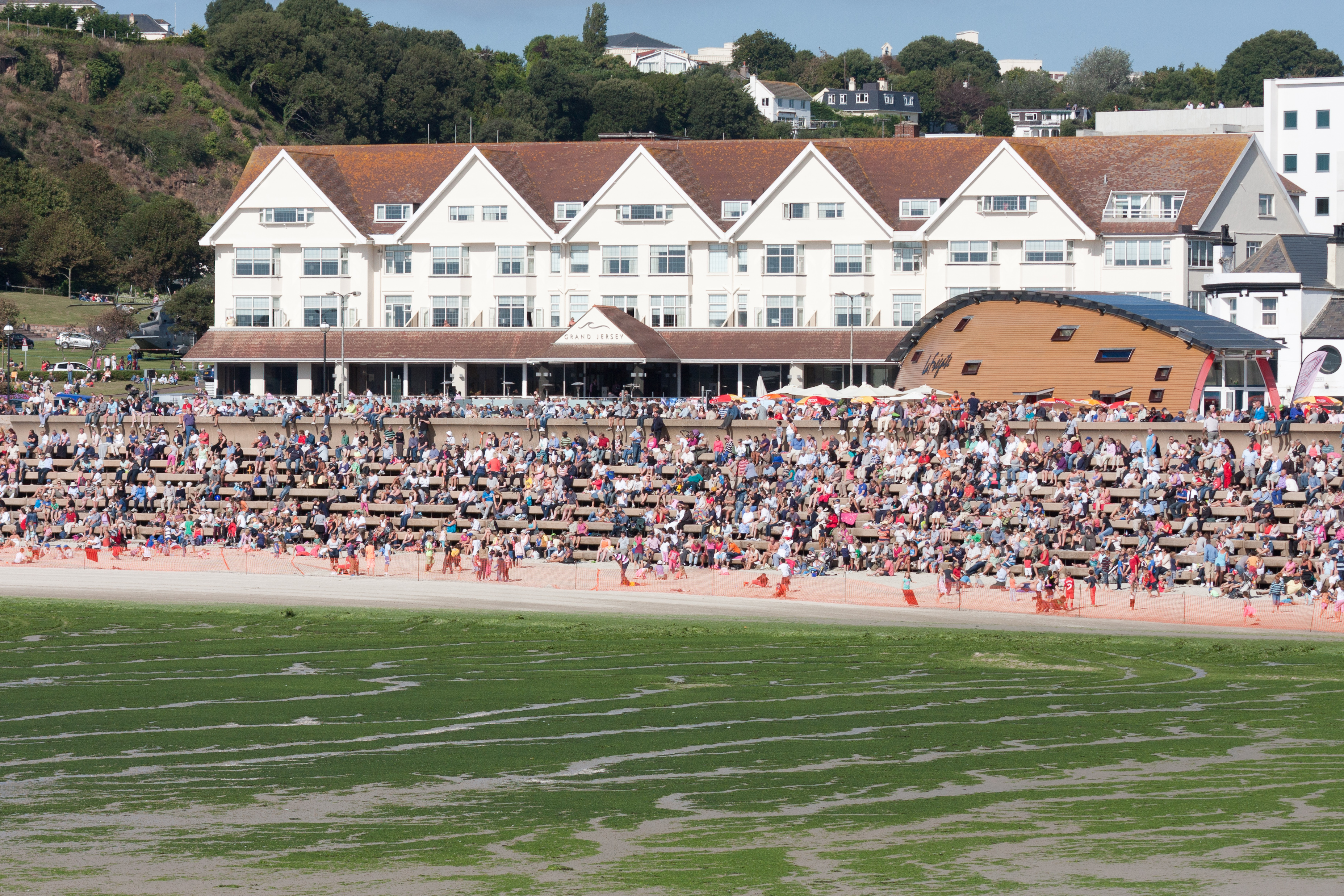 Crowds watching the Jersey International Air Display at Westpark, in 2012.